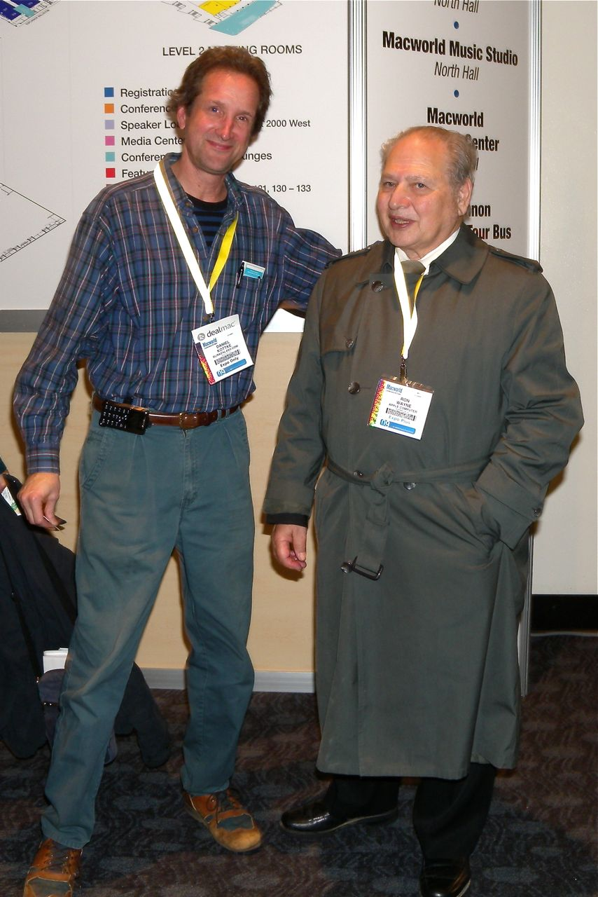 Daniel Kottke and Ron Wayne after the premier of the doucumentary film MacHEADS at Macworld 2009